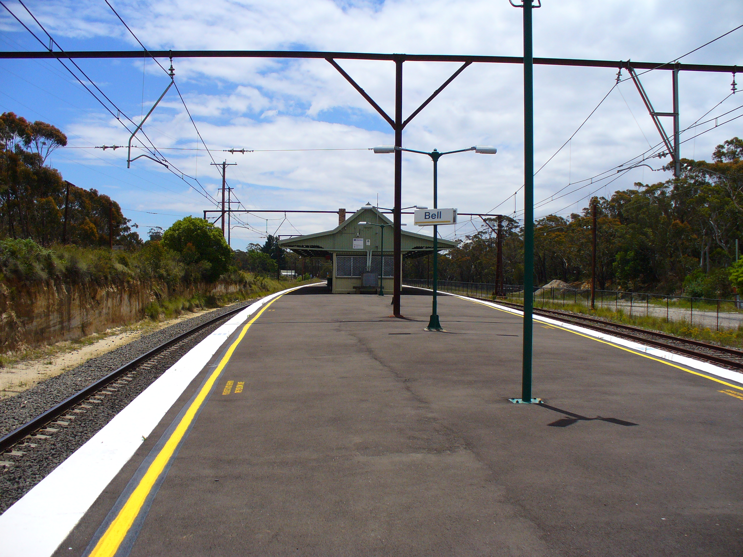 Bell Railway Station, Blue Mountains, New South Wales